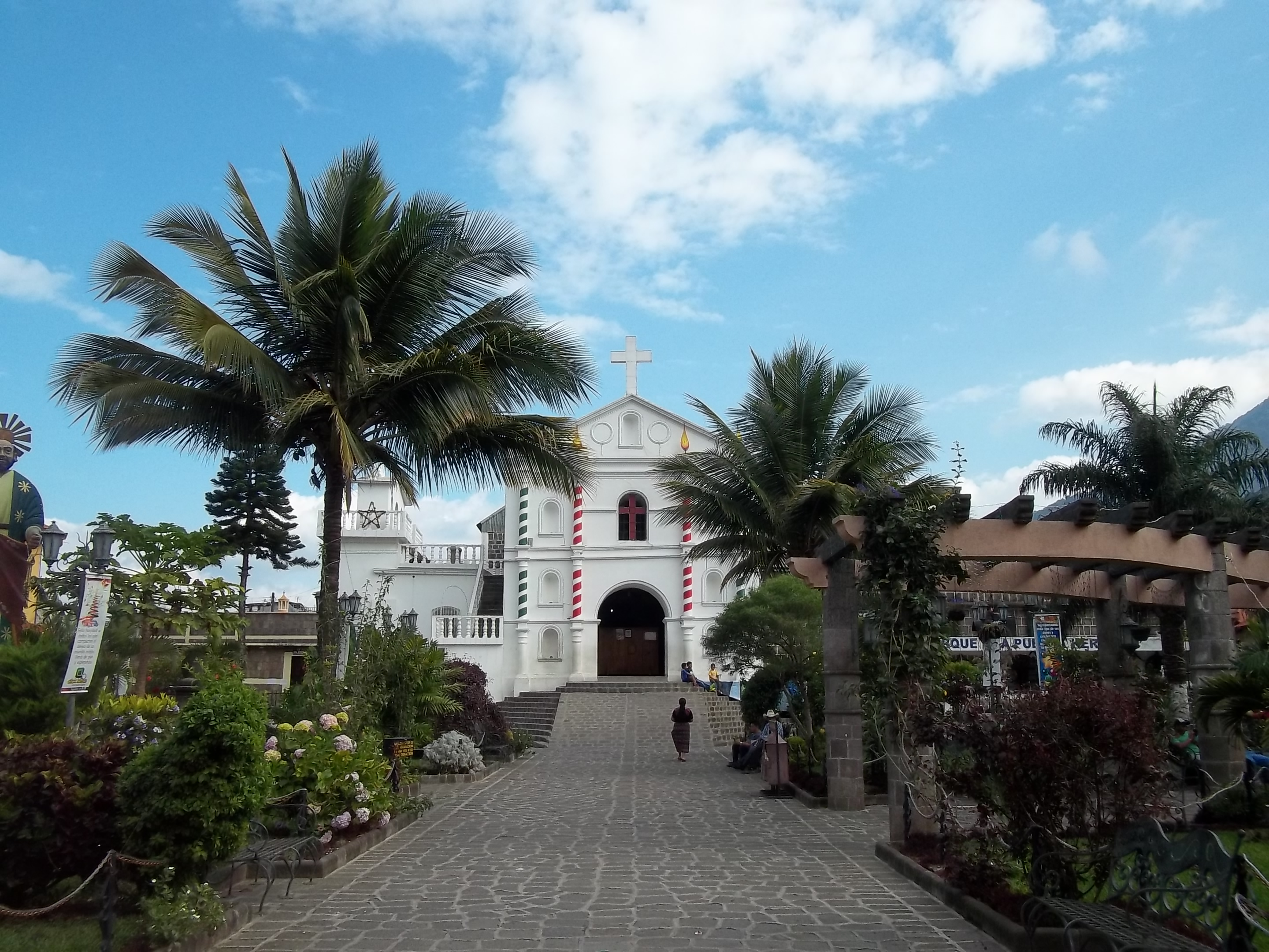 San Pedro La Laguna, Sololá department, Guatemala.